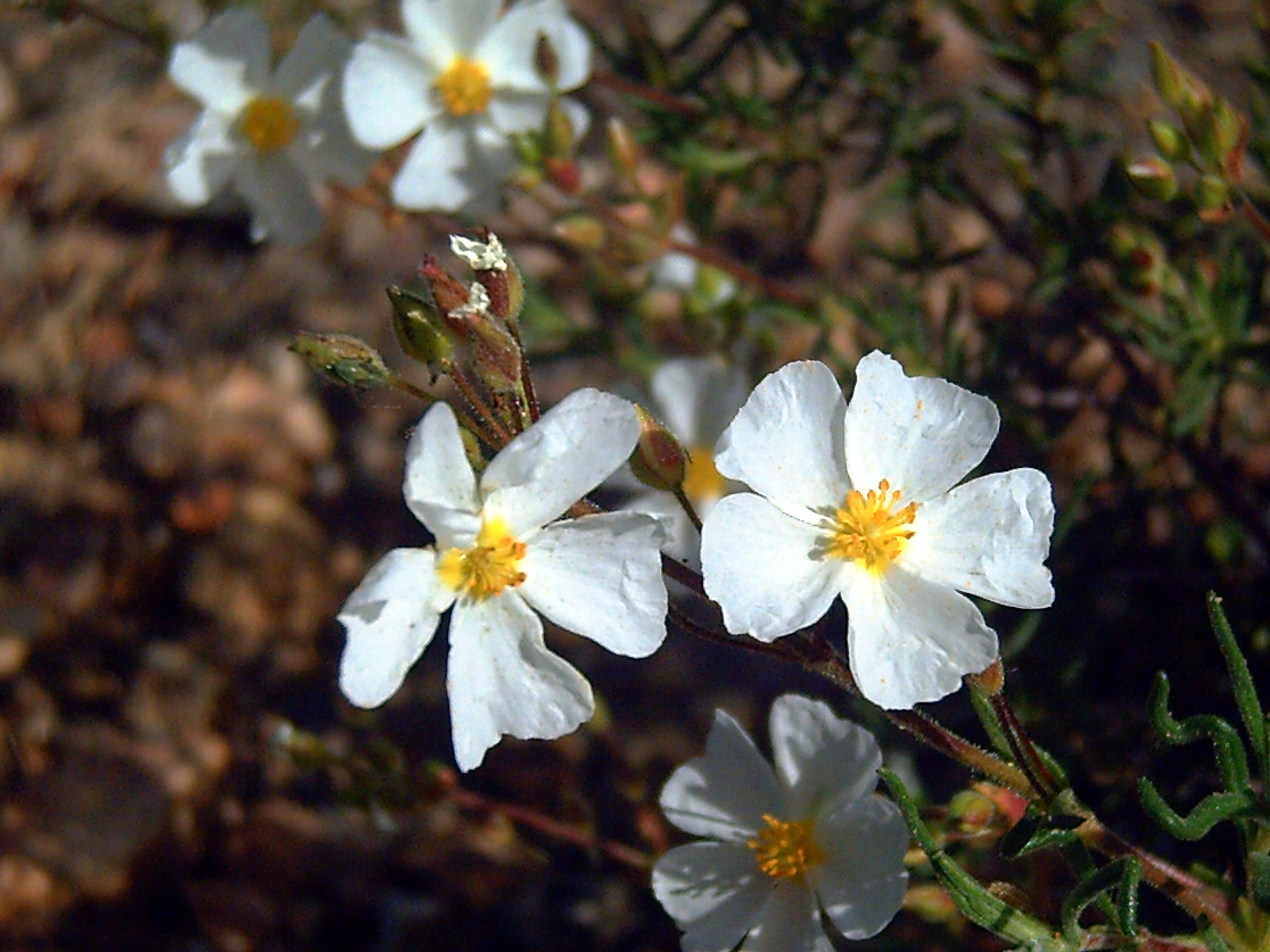 Helianthemum violaceum Flowers Closeup Sierra Madrona, Spain